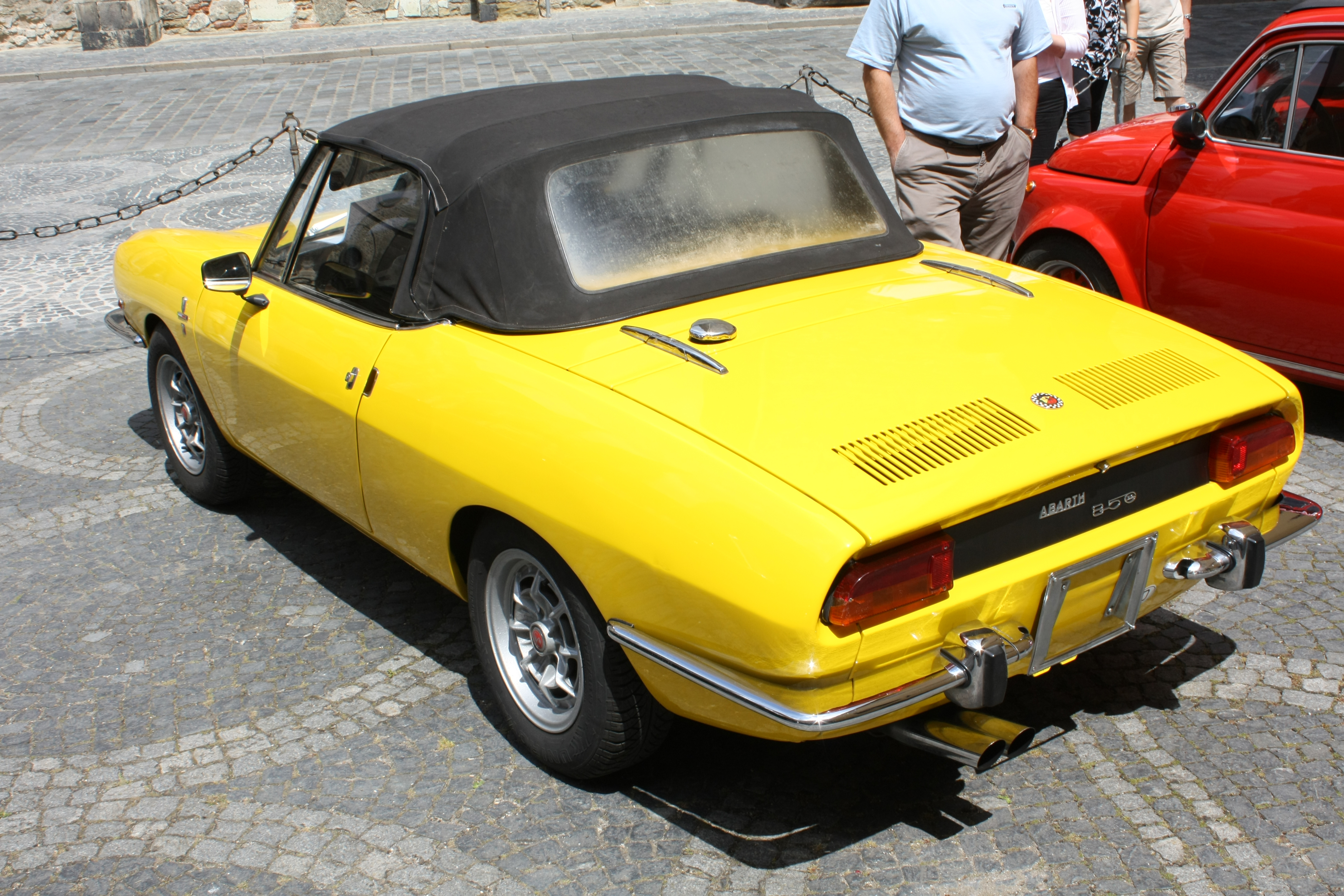 Fiat 850 Spider